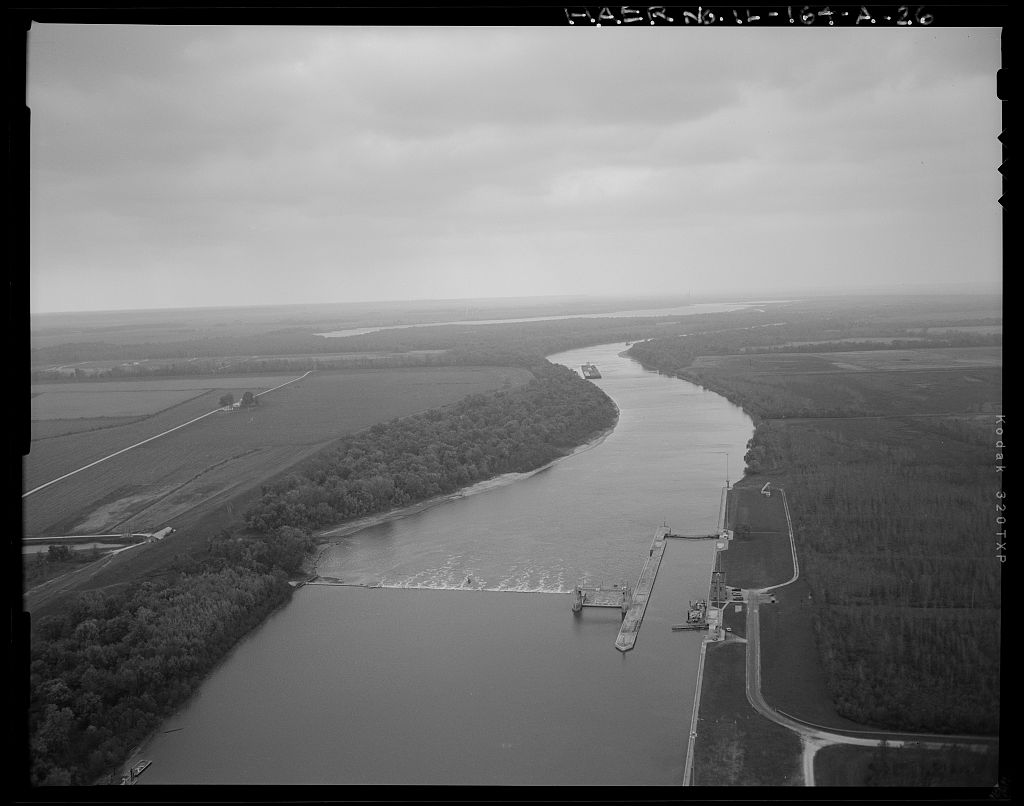 The La Grange Lock and Dam on the Illinois River at Versailles, Illinois. The site is listed on the National Register of Historic Places.